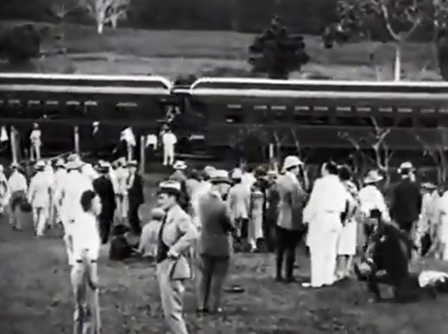 Train station at United Fruit Company facilities in Izabal, Guatemala. 1920